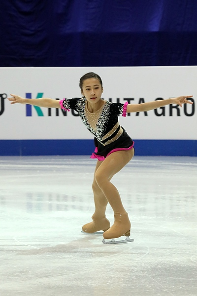 Photos – Junior World Championships 2017 – Ladies